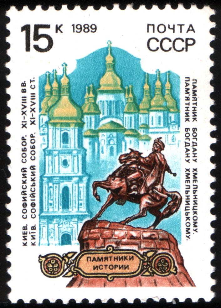 Stamp of USSR, Historical Monuments. St. Sophia's cathedral and statue of Bogdan Chmielnitsky, Kiev, 1989